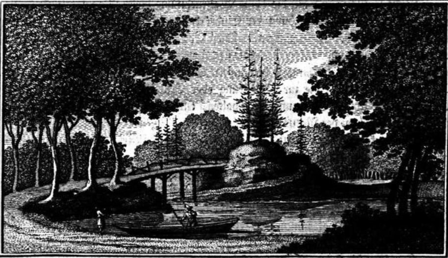 "Eine Gegend von Brandt" ('A view/scene of Brandt')- The image is from page 185 in volume one of C.C.L. Hirschfeld's Theorie der Gartenkunst Leipzig, 1779-1785. - (Drawings listed page 231.) Category:Theorie der Gartenkunst Hirschfeld